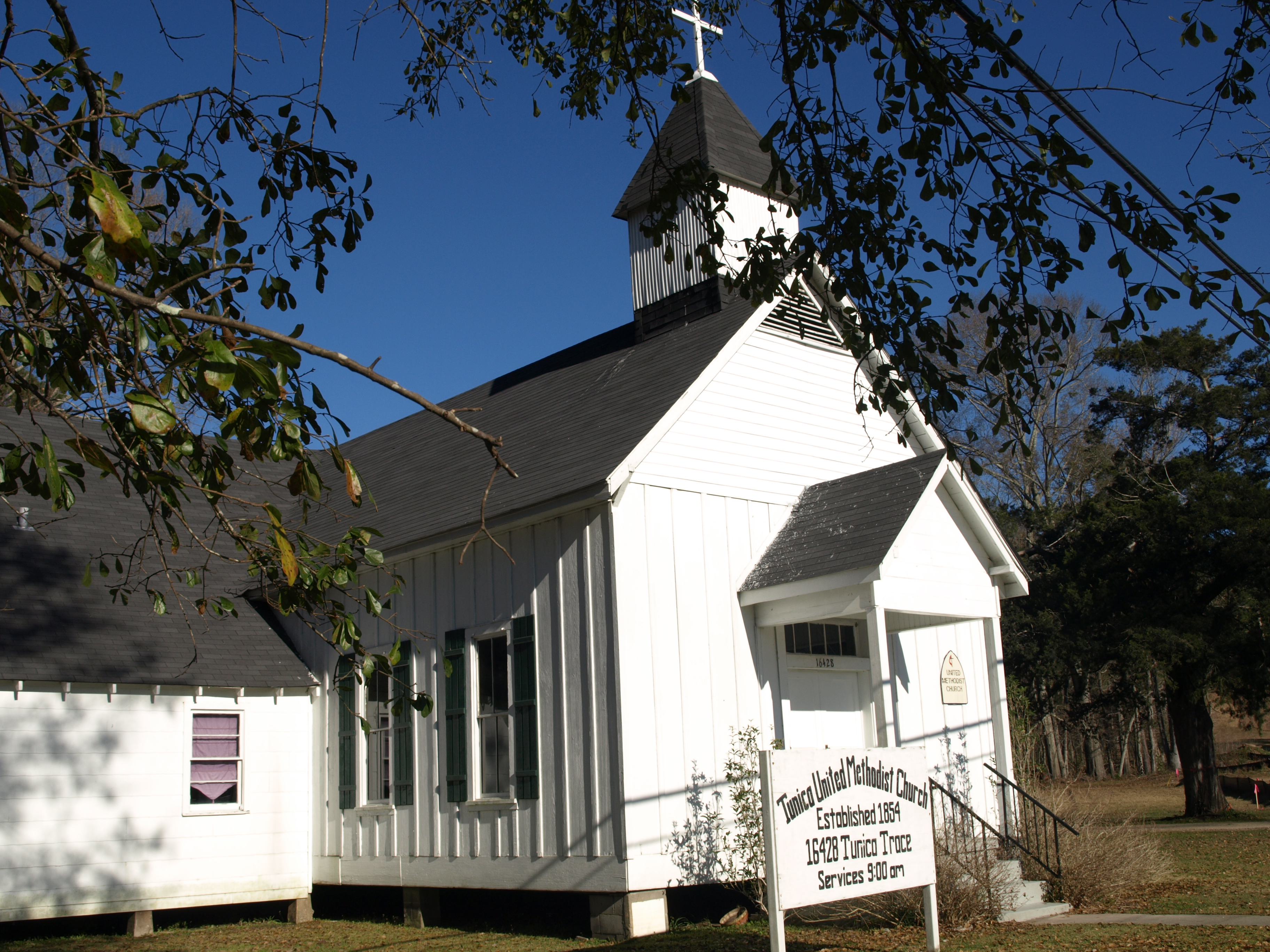 Tunica United Methodist Church. Established in 1854. This little church is in Tunica, Louisiana, not far from the gates at Angola.